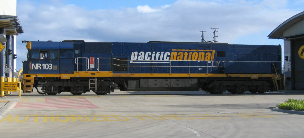 NR class locomotive NR103 in Pacific National trial livery - Melbourne, Victoria, Australia